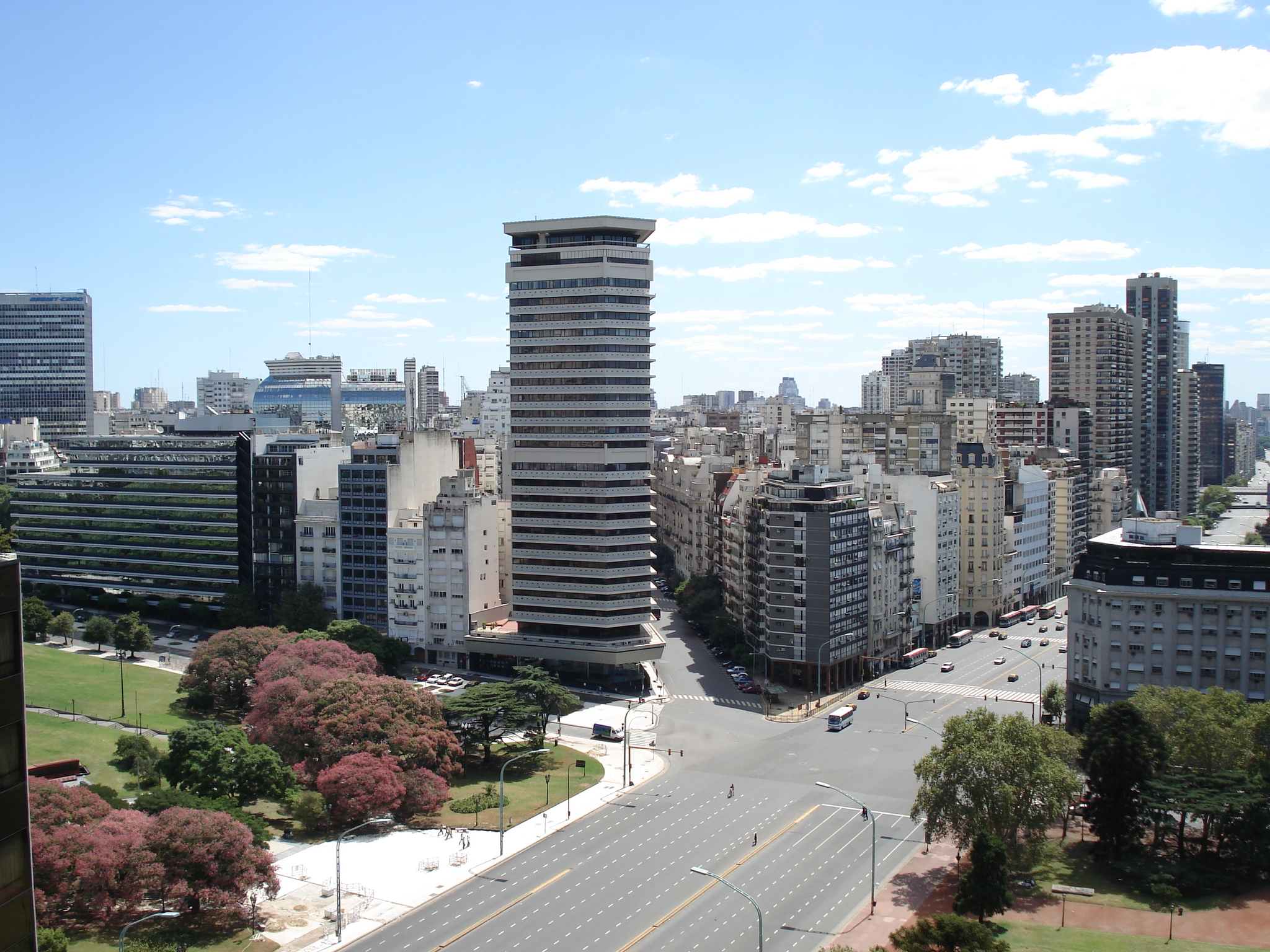 Libertador Avenue, through the Retiro section of Buenos Aires. The Pirelli Tower (1975) in the foreground.